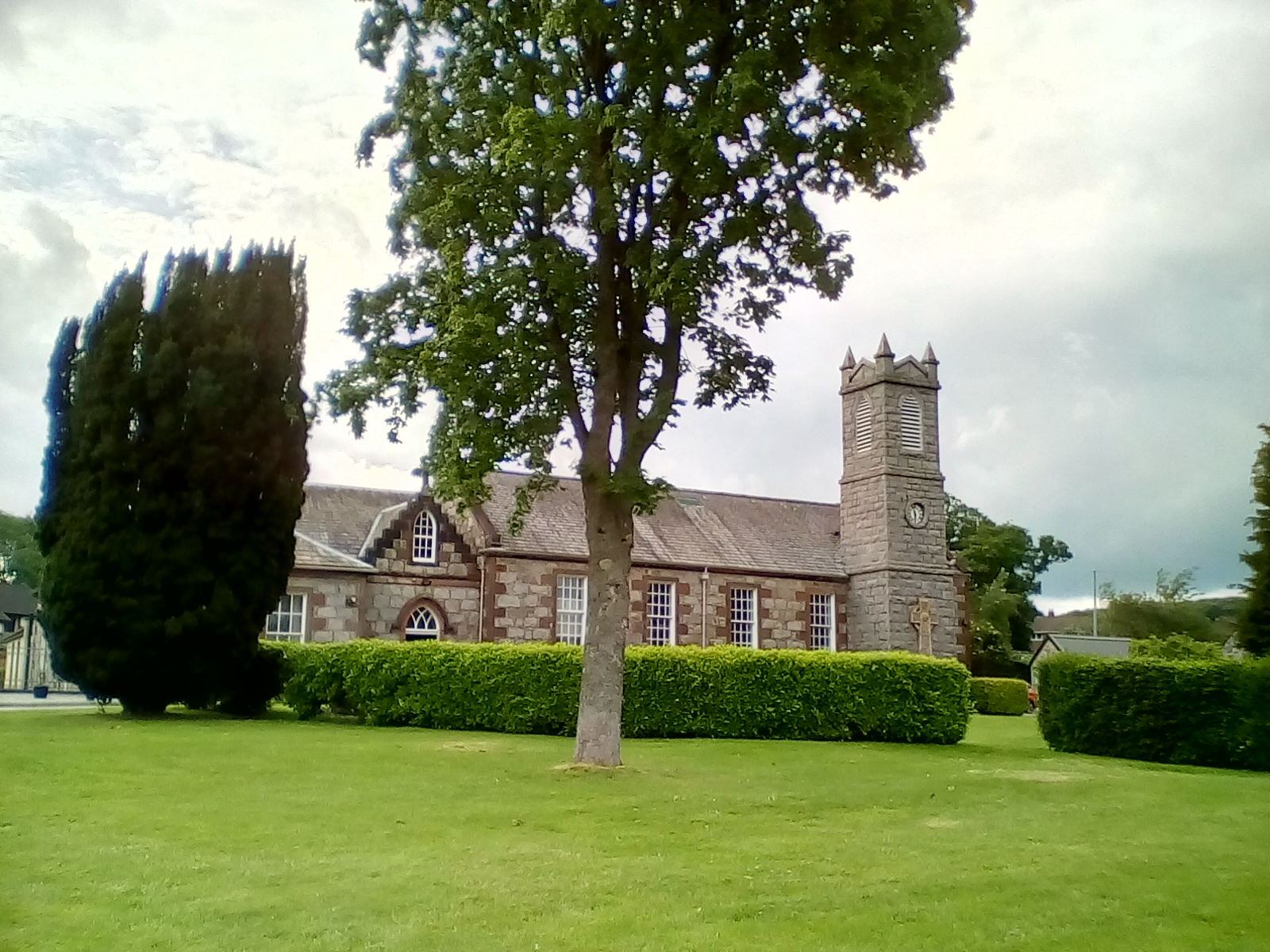 St. Peter's Church, Dalbeattie. Built in 1814 , pink granite, red sandstone dressings. Grey ashlar tower of c1850. Oldest parish, founded 1745, in Galloway Diocese, and oldest church. Architects unknown.